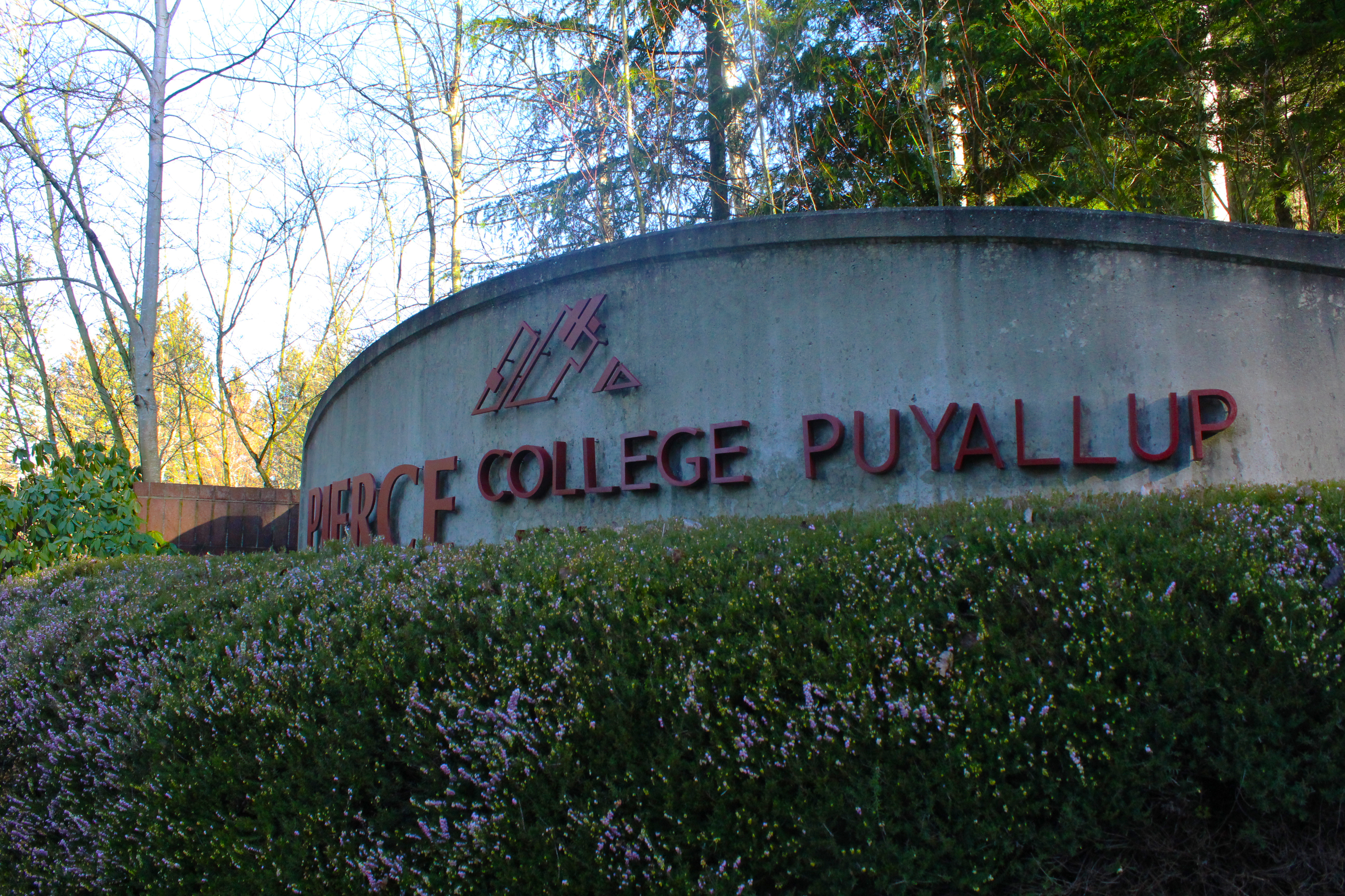 The main sign outside of Pierce College Puyallup on 39th Avenue SE.